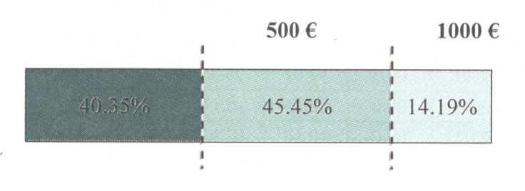 Percentage of the population in Macedonia by monthly income